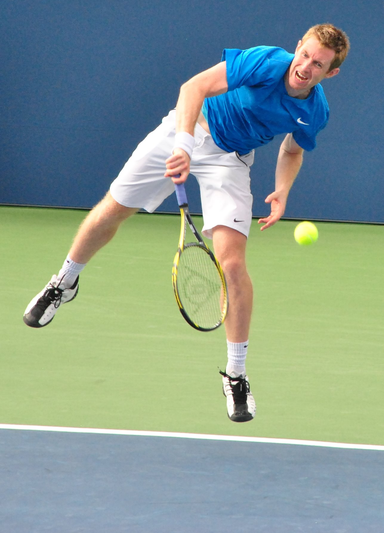 Jonathan Marray at the 2011 US Open.